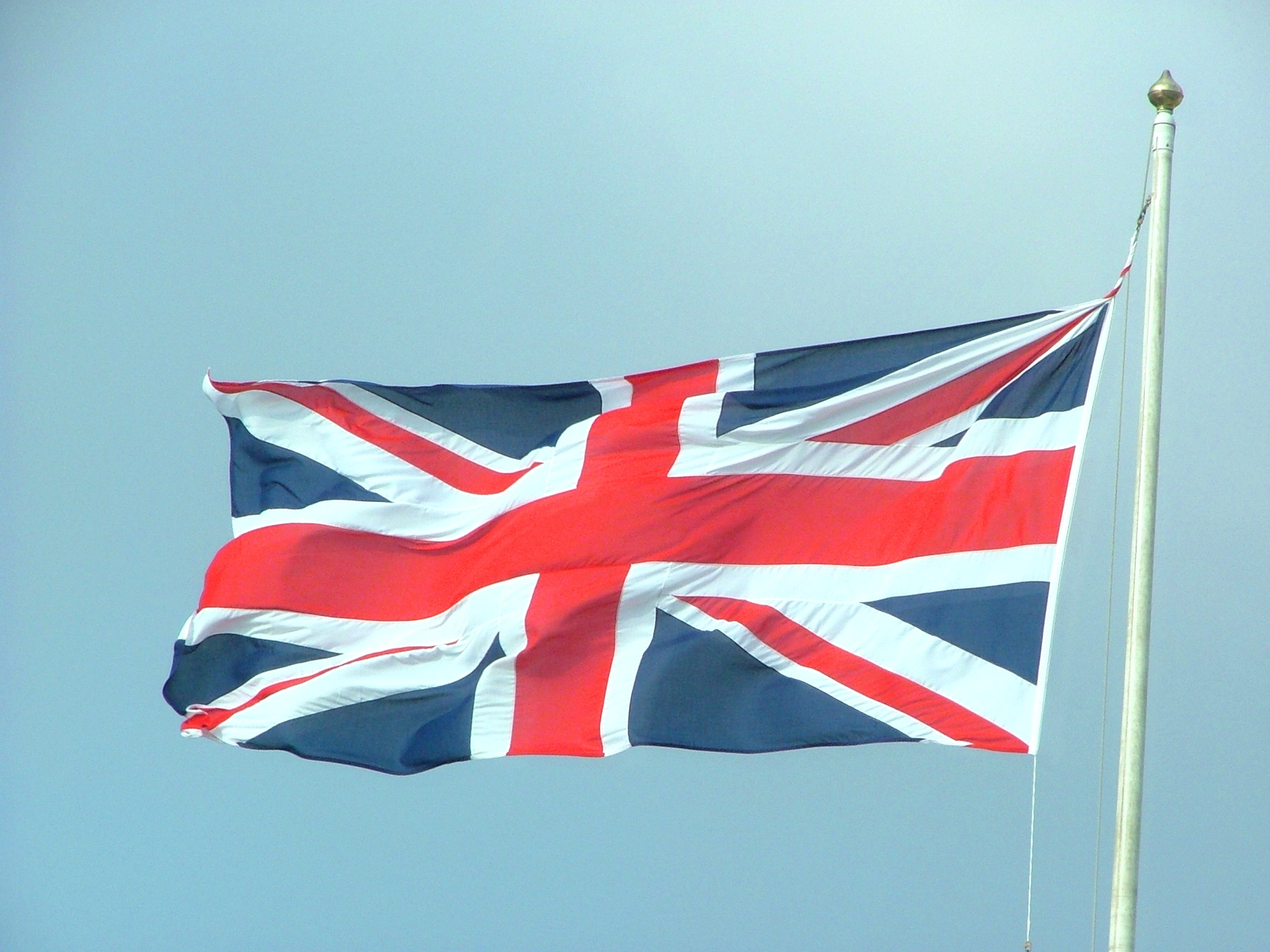 The Flag of the United Kingdom, the right way up, here viewed from behind.